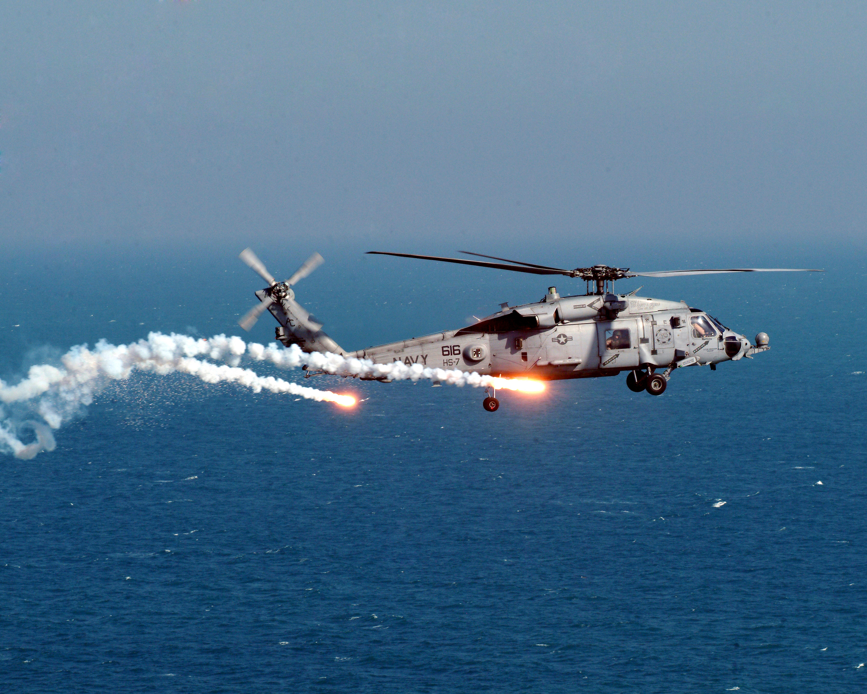 Persian Gulf (Dec. 21, 2004) – An HH-60H Seahawk assigned to the " Dusty Dogs" of Helicopter Anti-Submarine Squadron Seven (HS-7), test dispenses flares and chaff from the on board AN/AAR-47 system. This system helps protect the helicopter from radar guided and heat intercept missile threats. HS-7 is part of the Essex Expeditionary Strike Group, operating in the Northern Persian Gulf with other multi-national forces in support of the sovereign government of Iraq. U.S. Navy photo by Photographer's Mate 1st Class Michael D. Kennedy (RELEASED)